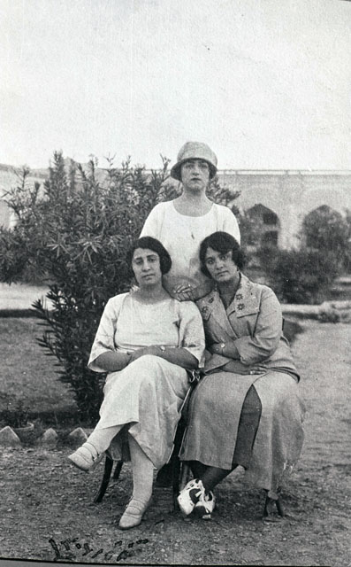 Afghan women in the 1920's and women's rights in Afghanistan.